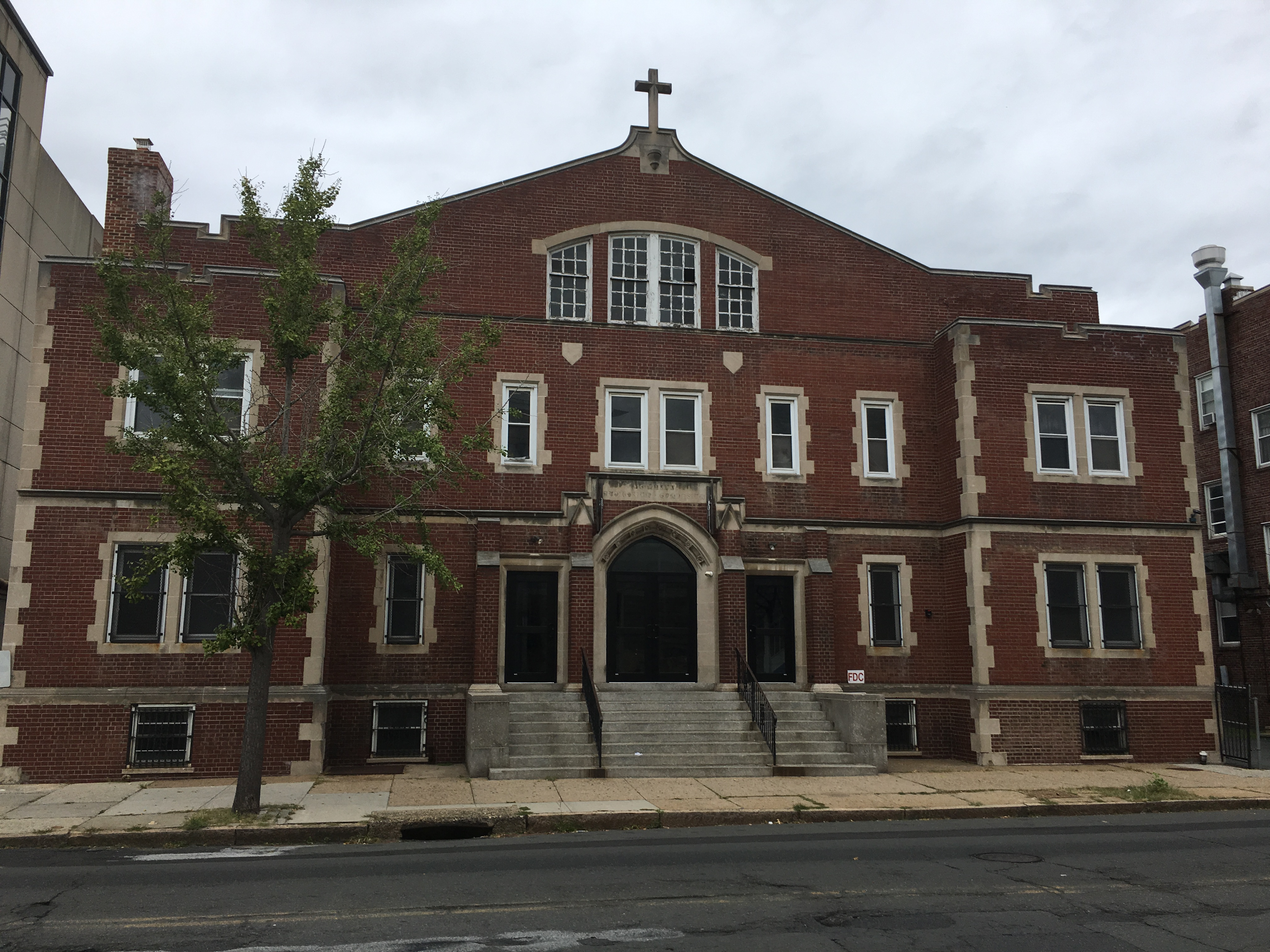 Trenton historic buildings/ monuments